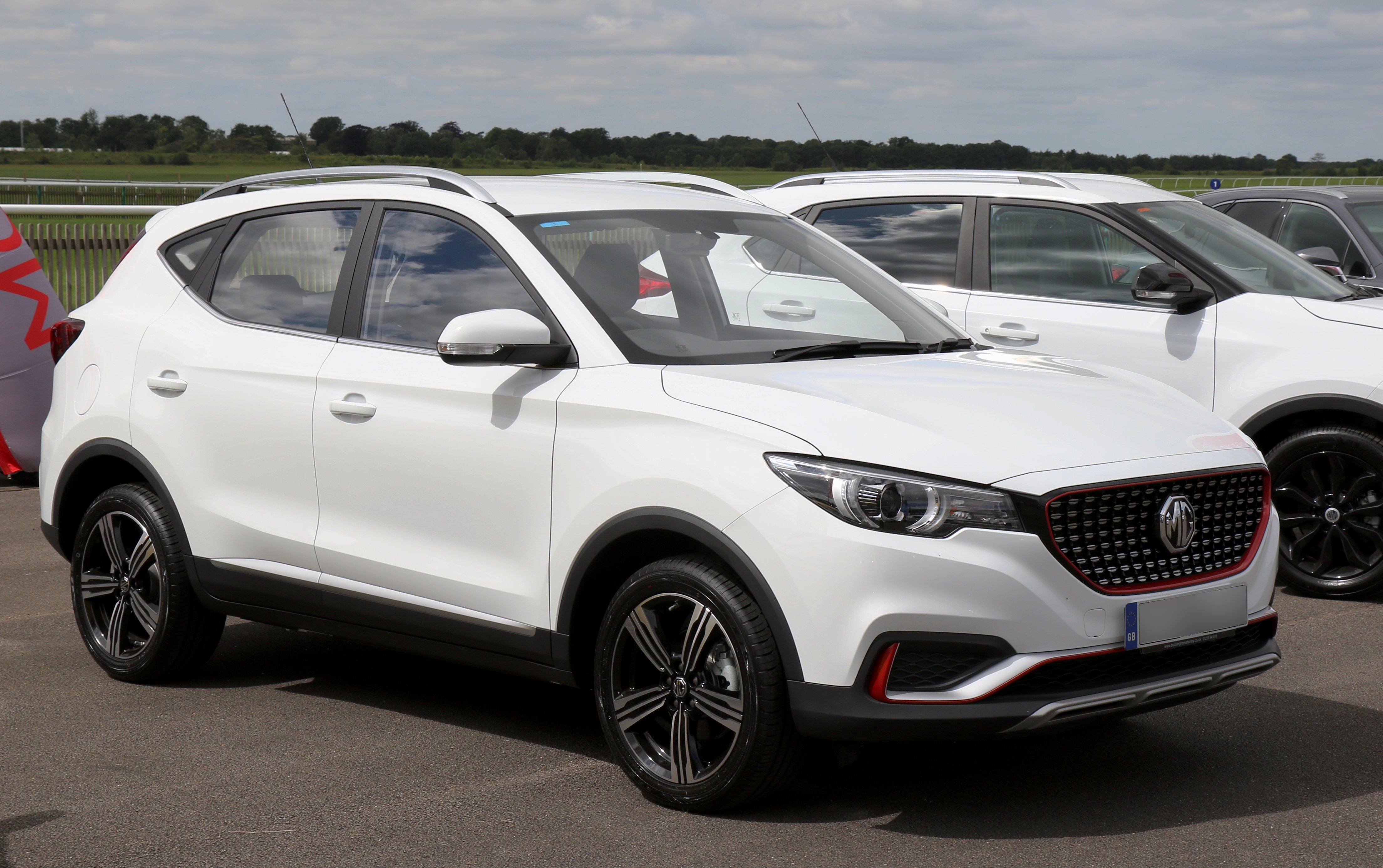 MG ZS at races